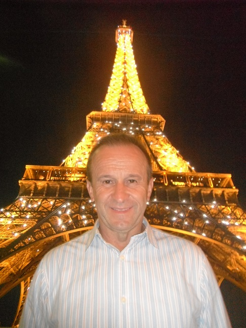 Dragan Djokanovic in Paris (2016)